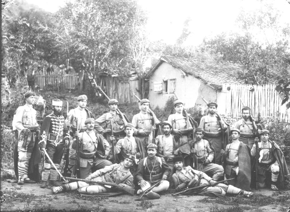 Petar Pashata`s band